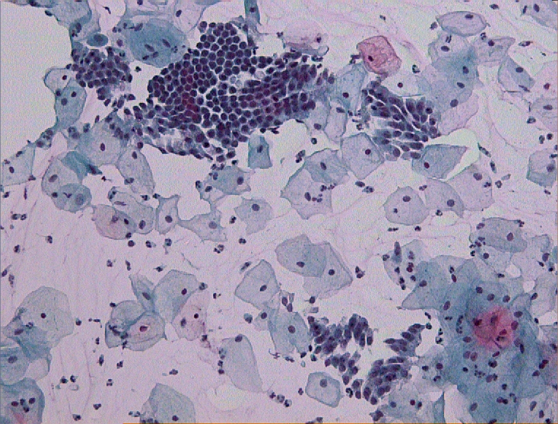 author: cagliostro pap test: normal cervicovaginal cytology (pap smear)